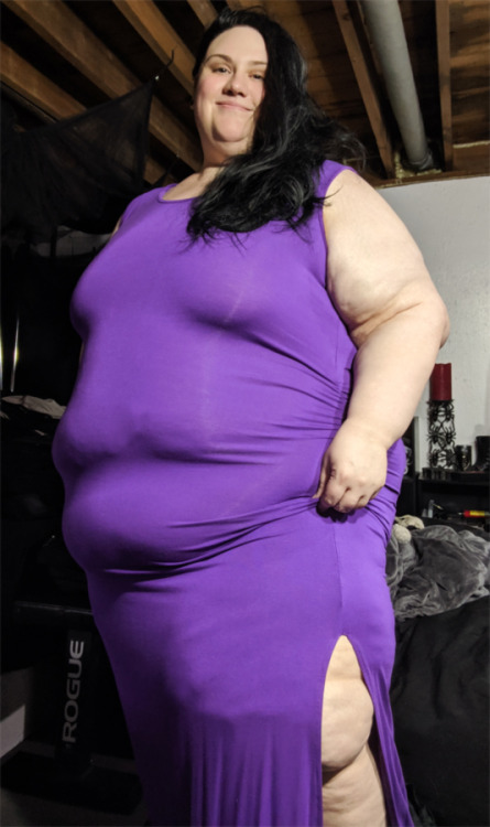 Plus-size model Xutjja wearing a dress